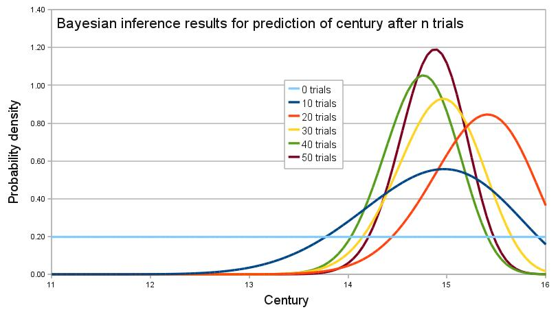 Example results of Bayesian inference.